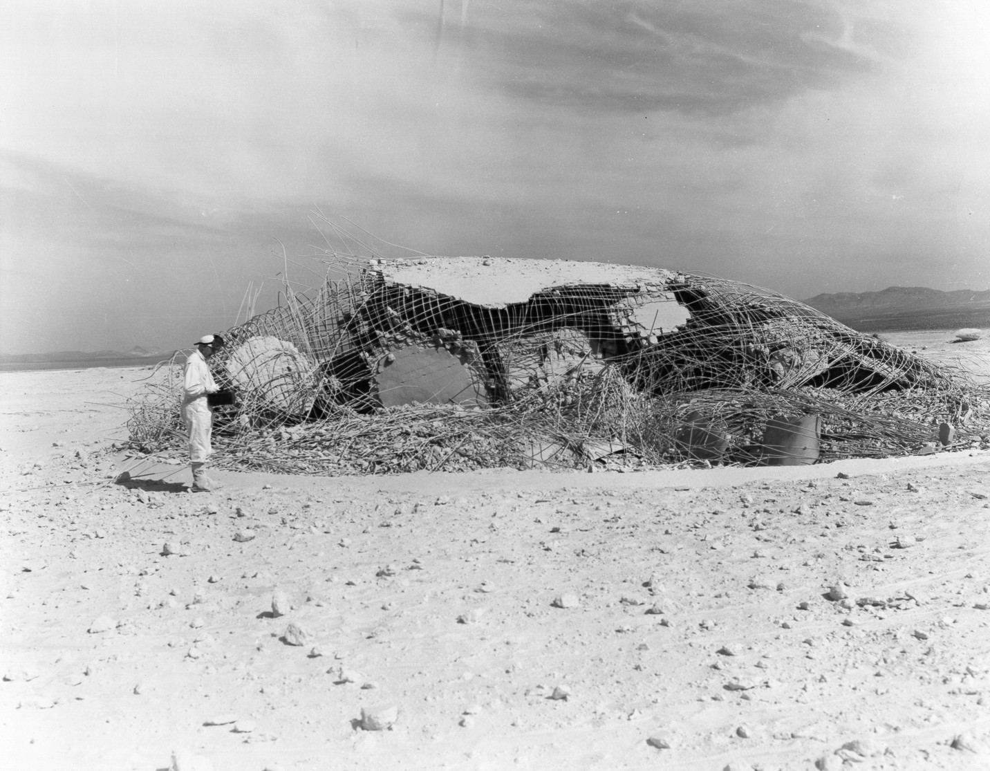 PLUMBBOB - 1957 - NEVADA TEST SITE -- One of three concrete domes tested by a recent atomic detonation. American Machine and Foundry, under FCDA auspices, designed the structures for experiments to determine load, response and mode of failure under atomic blast. The domes were designed and located for tests of pressures ranging from about 20 to 70 pounds per square inch. Instrumentation was conducted by Ballistic Research Laboratories and the Armour Research Foundation.